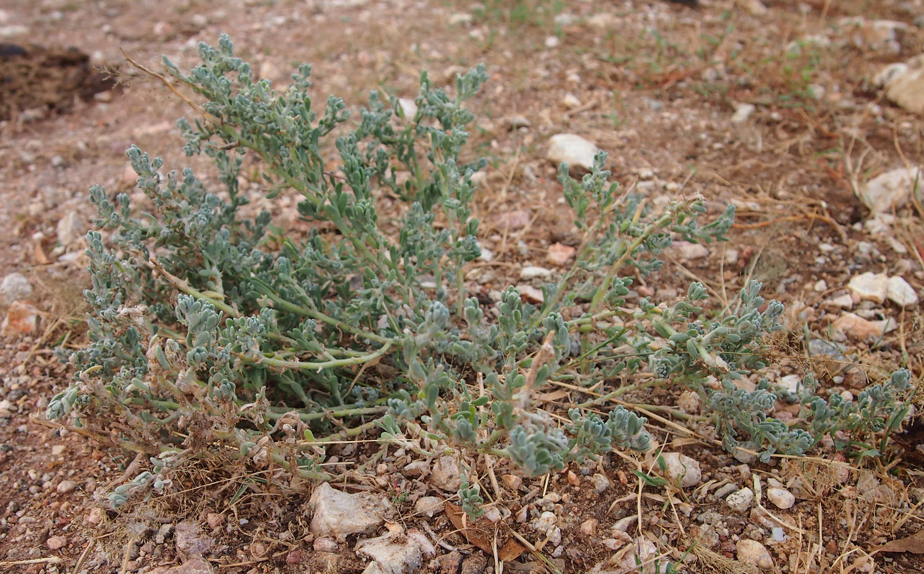 Eremophea spinosa